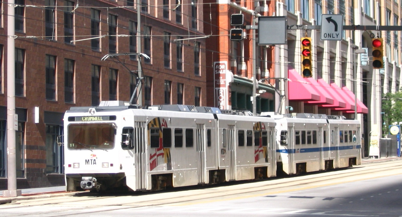 A southbound Baltimore Light Rail train leaves the Baltimore Street stop